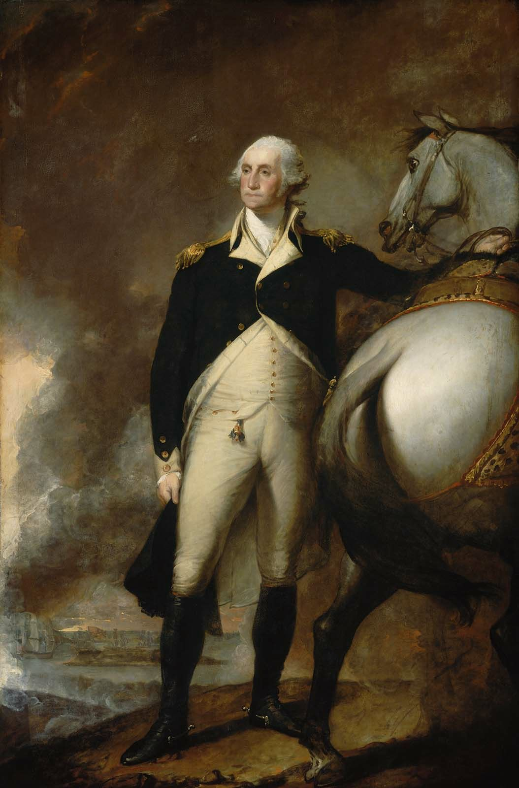 Portrait of George Washington at Dorchester Heights.